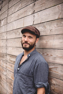 Nils Straatmann